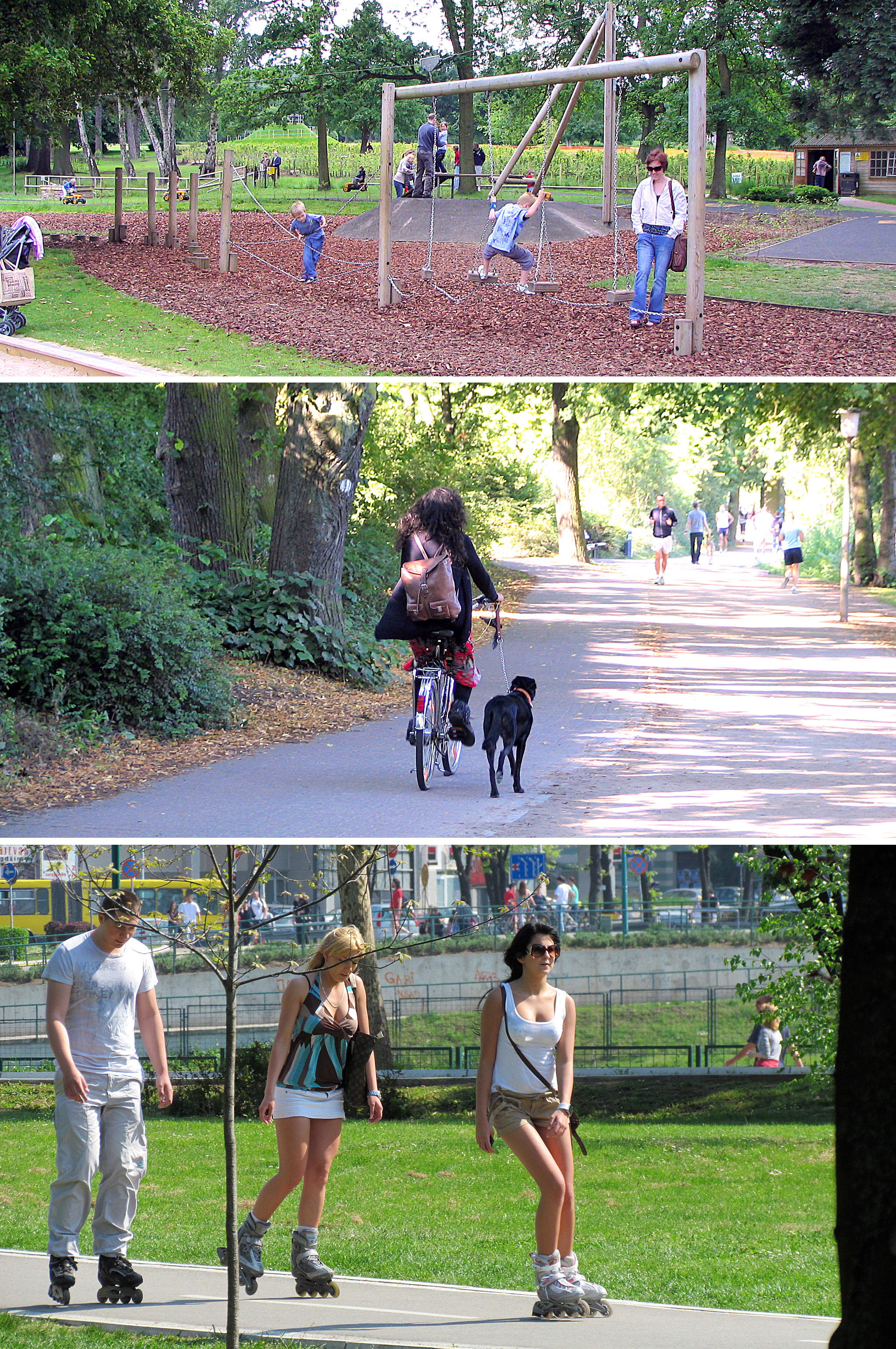 Different kind of recreation (Trentham, Hamburg, Belgrade)